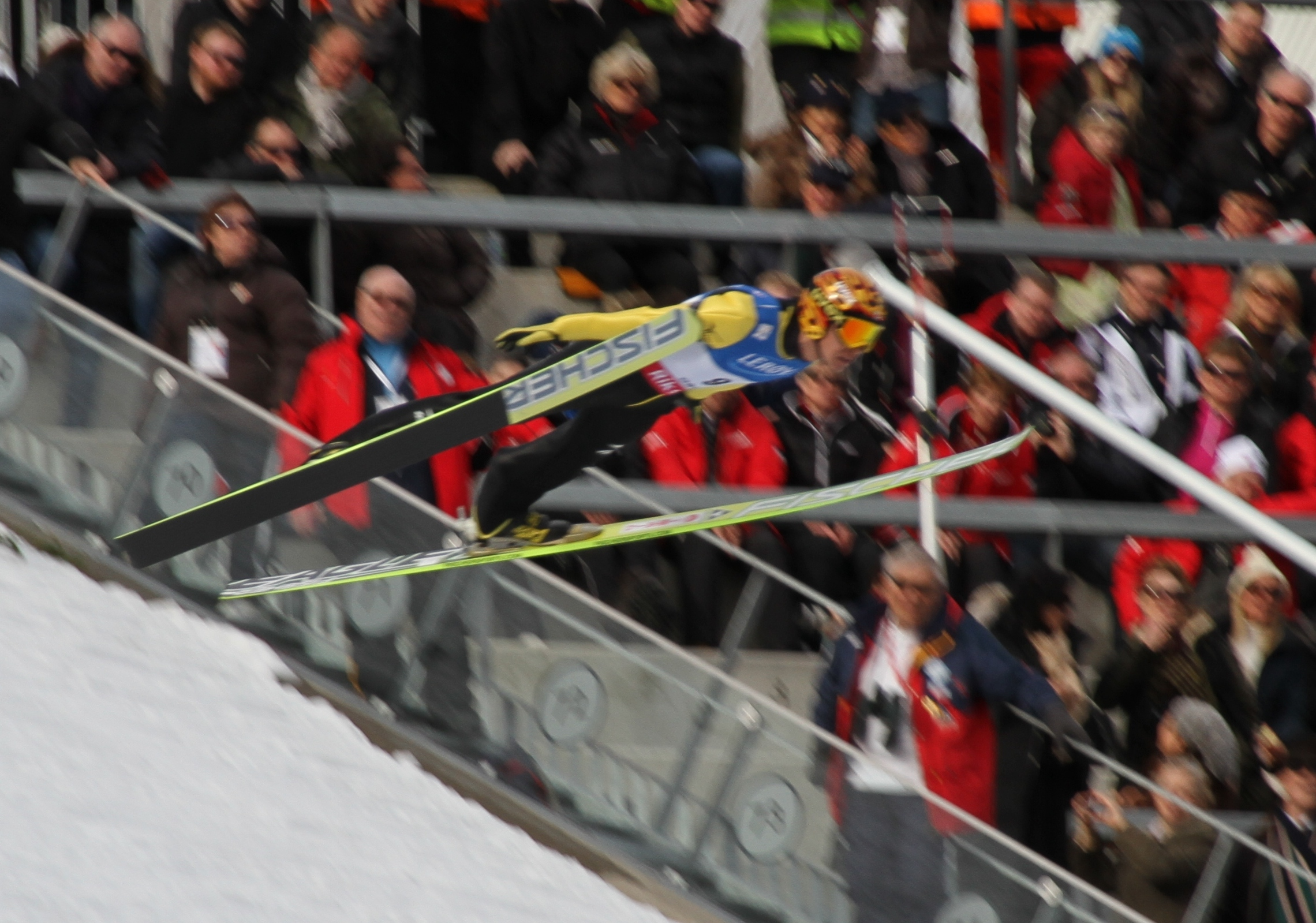 Holmenkollen, Oslo (Norway). First round of FIS 2011-12 World Cup Ski Jumping, at the third last tournament that season. Noriaki Kasai (JPN) in his typical deep, floating style.